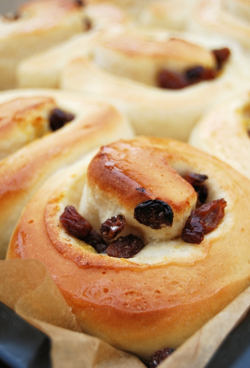 BBD #28 - Chelsea Buns